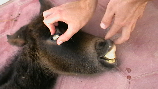 Eye and buccal mucosae of the mule foal of this pic with anaemia and icterus. Walon: Siblareyès finès peas des ouy et del boke do moultea del foto cial